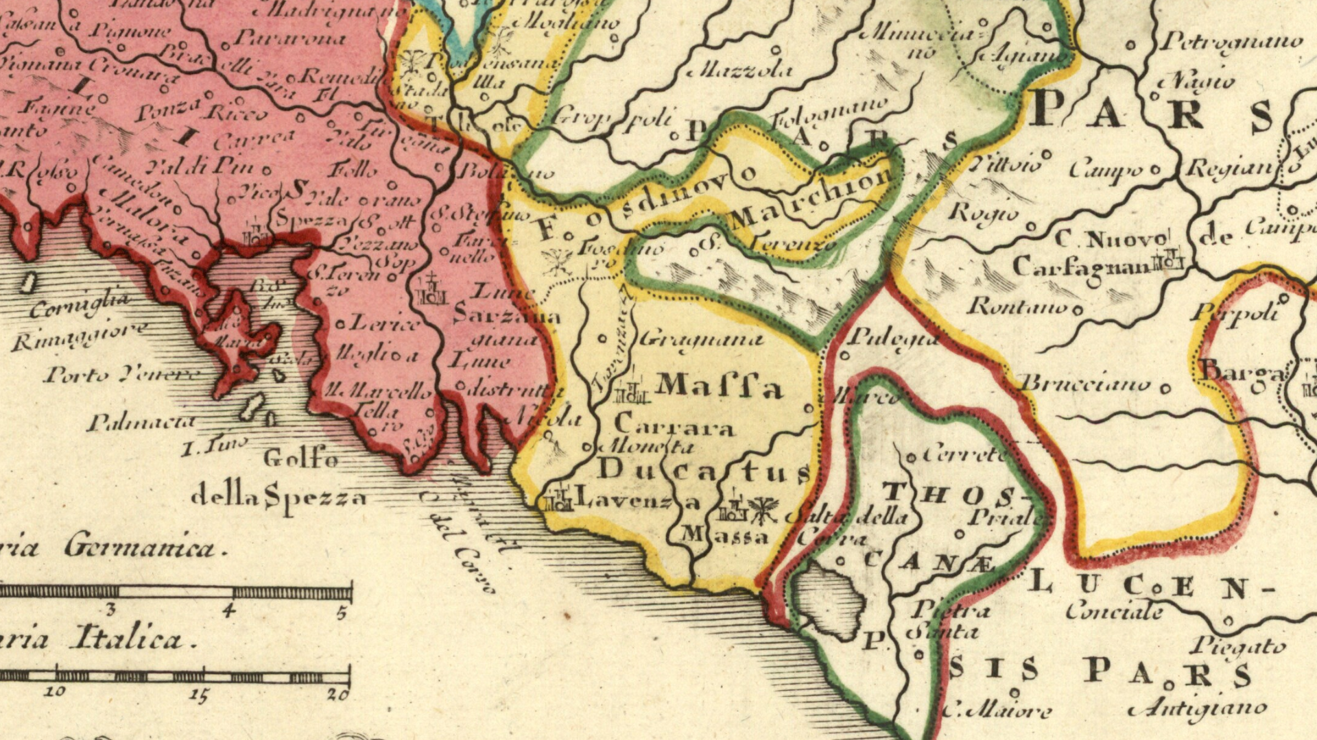 The Duchy of Massa and Carrara and the Marquisate of Fosdinovo shown on an early 18th-century map. Massa-Carrara and Fosdinovo, which bordered the eastern end of the Republic of Genoa (in red), were independent principalities ruled by the Malaspina family throughout the 17th and 18th century. Cropped from a map by Johann Baptist Homann titled Status Republicae Genuensis. Published between 1715 and 1730.